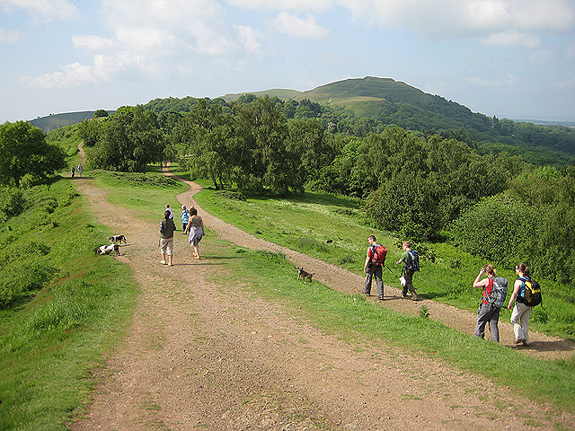 Walkers on the Malvern Hills The soil on the top of this range of ancient rocks is thin, supporting mainly short, wiry grass. In the distance, the distinctive outline of the Herefordshire Beacon - 338m - can be seen. Dogs are allowed on the hills and can run free if they are well behaved.